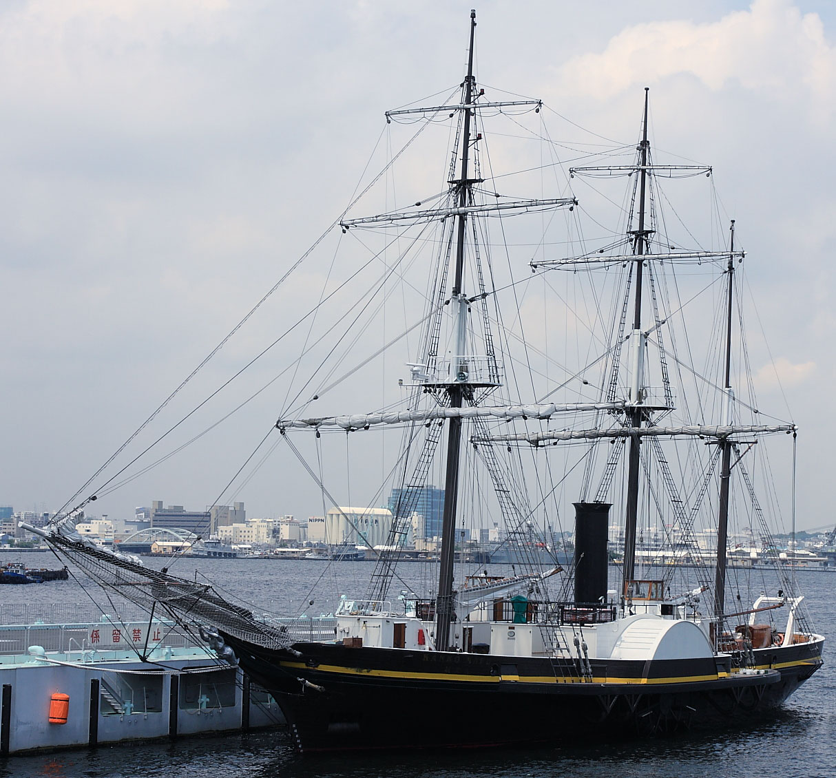 en: Kankō_Maru off the Port of Yokohama. IMO Number: 8824177 Callsign: JM5708